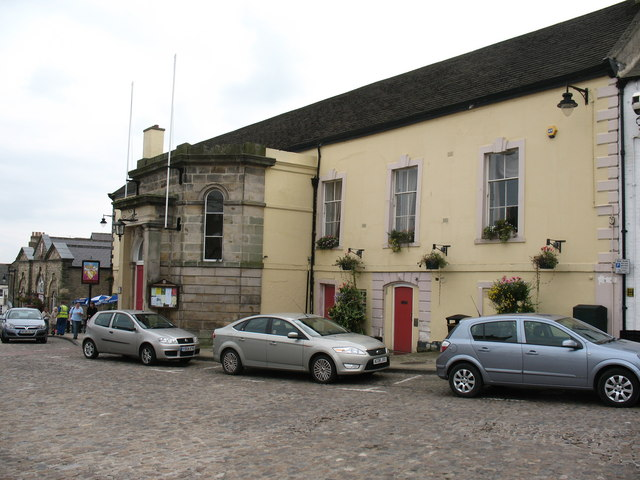 Richmond Town Hall What an odd building this is! It dates from 1756, although the large porch is later. The half nearest the camera appears to fulfil the function of 'town hall', but beyond the porch is an hotel. [see other photo in this square]